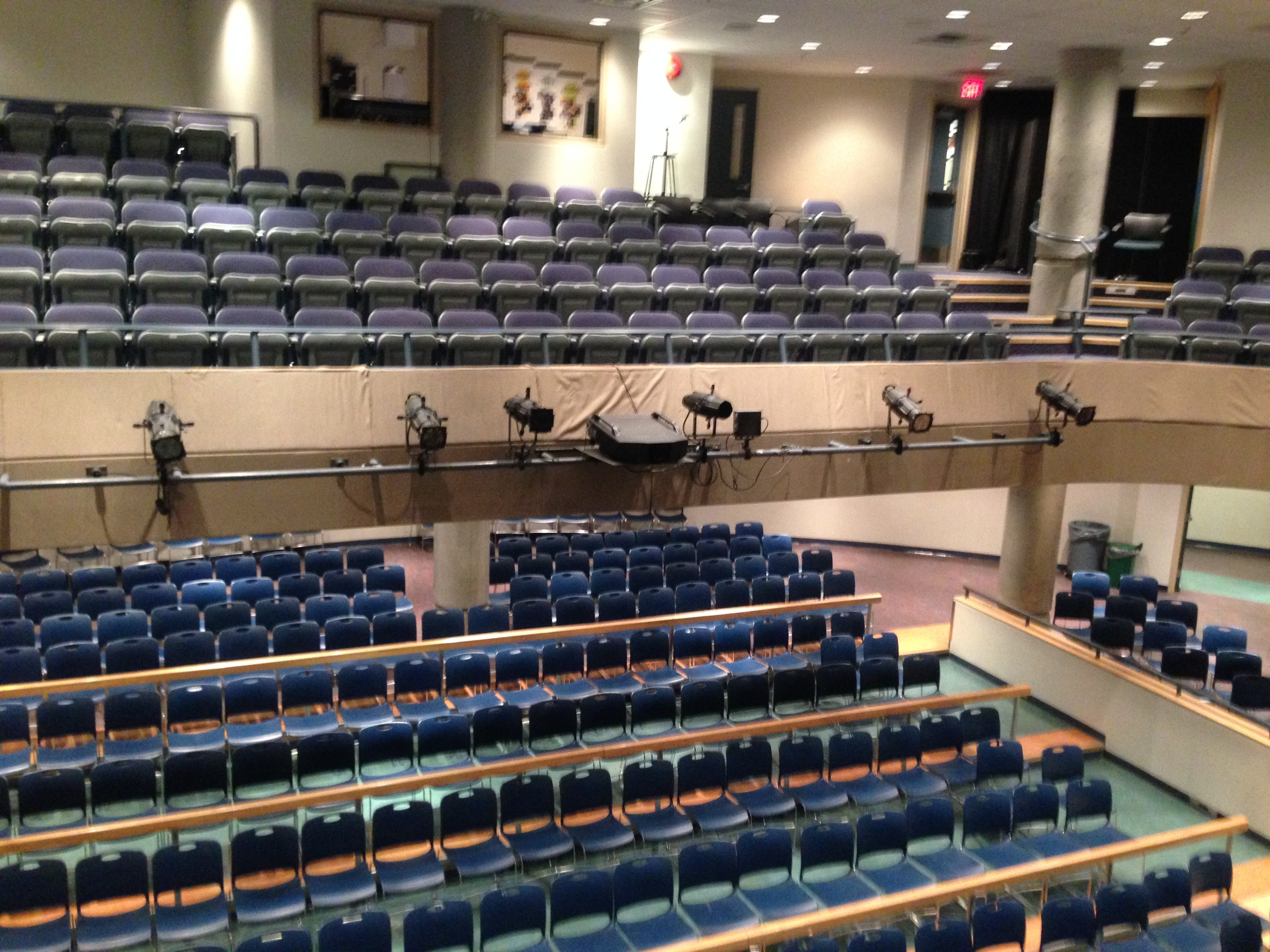 Mulgrave School's theatre can accommodate up to about 350 people